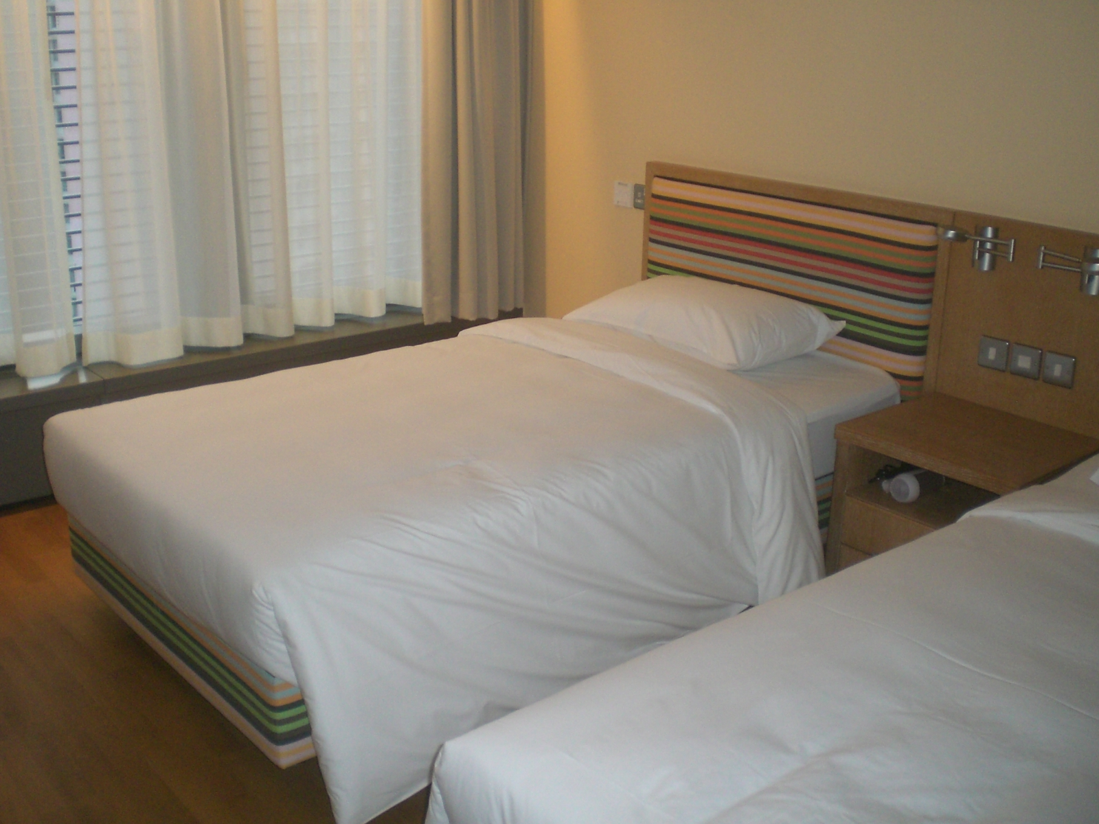 Y-Loft, Hong Kong, Centre for Youth Development (Youth Square)